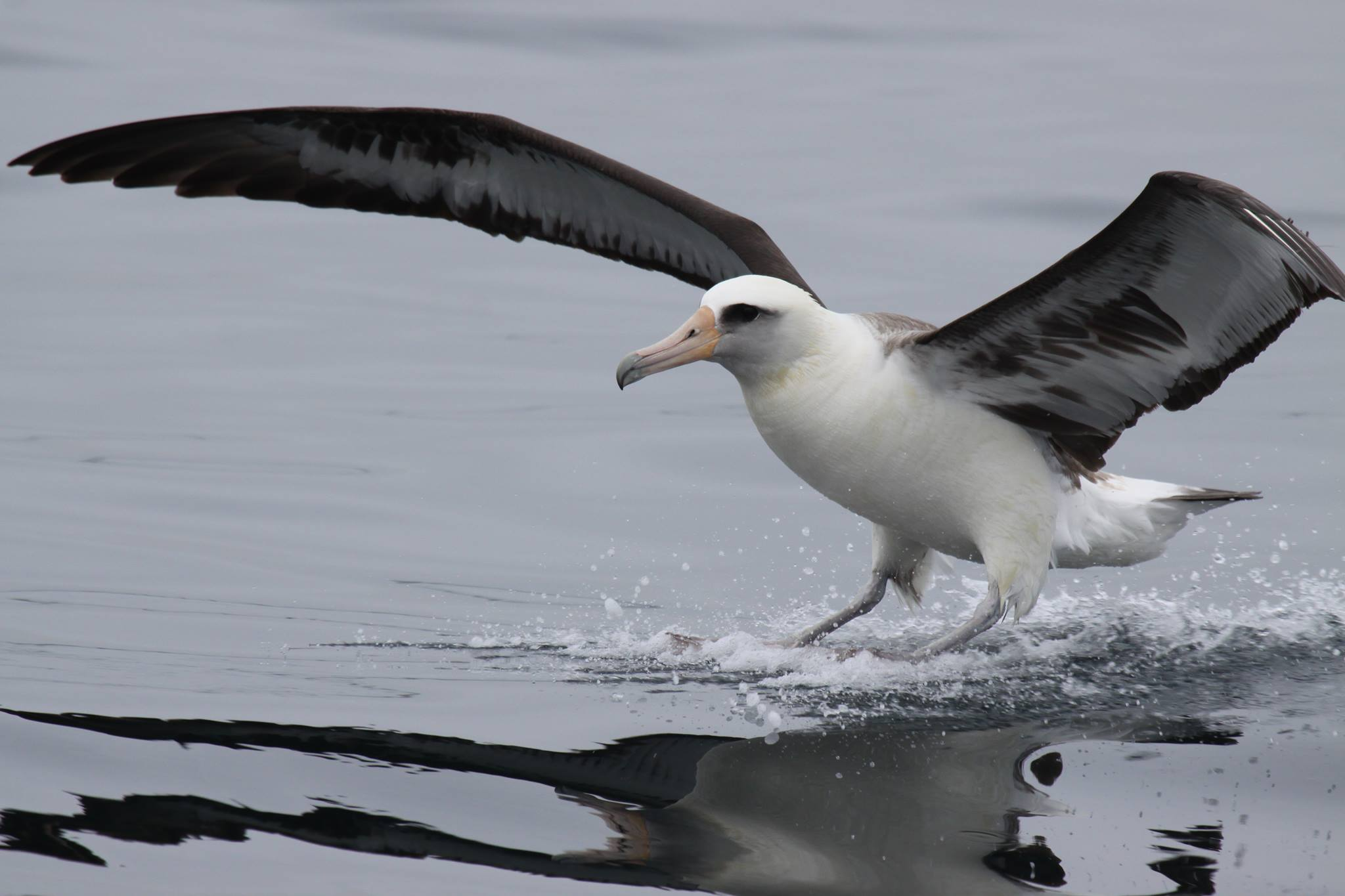 Laysan Albatross with wings extended, Aleutian Islands, Alaska